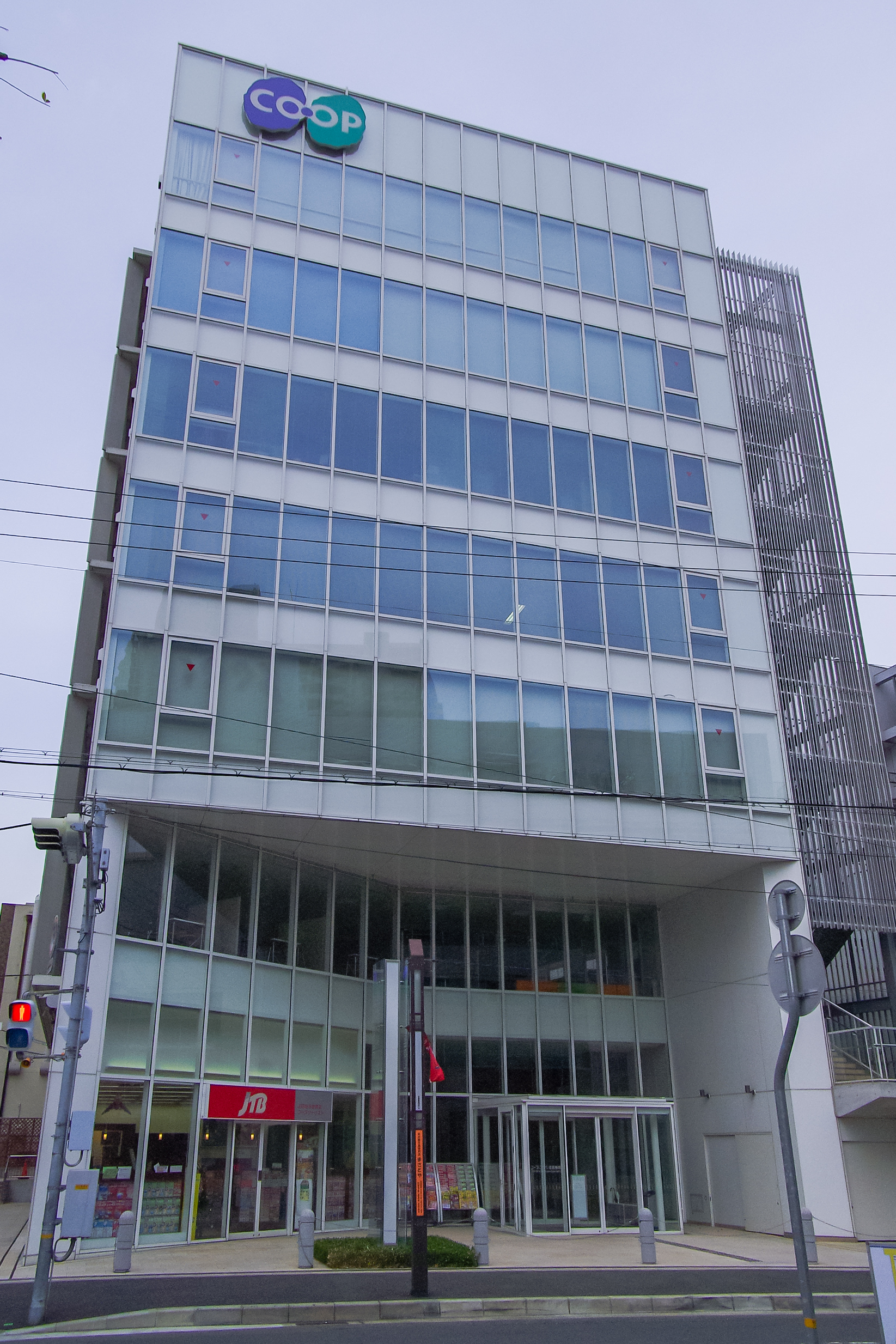 Photograph of Co-op Kobe Sumiyoshi Office, the headqurters of Co-op Kobe, in Higashinada-ku, Kobe, Hyogo Prefecture, Japan.